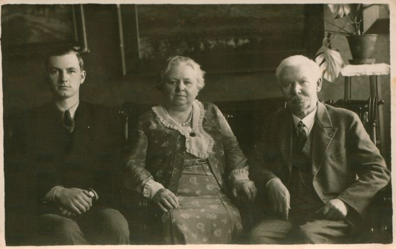 Educator Pranas Mašiotas with his wife Marija Jasienskytė-Mašiotienė and son Donatas